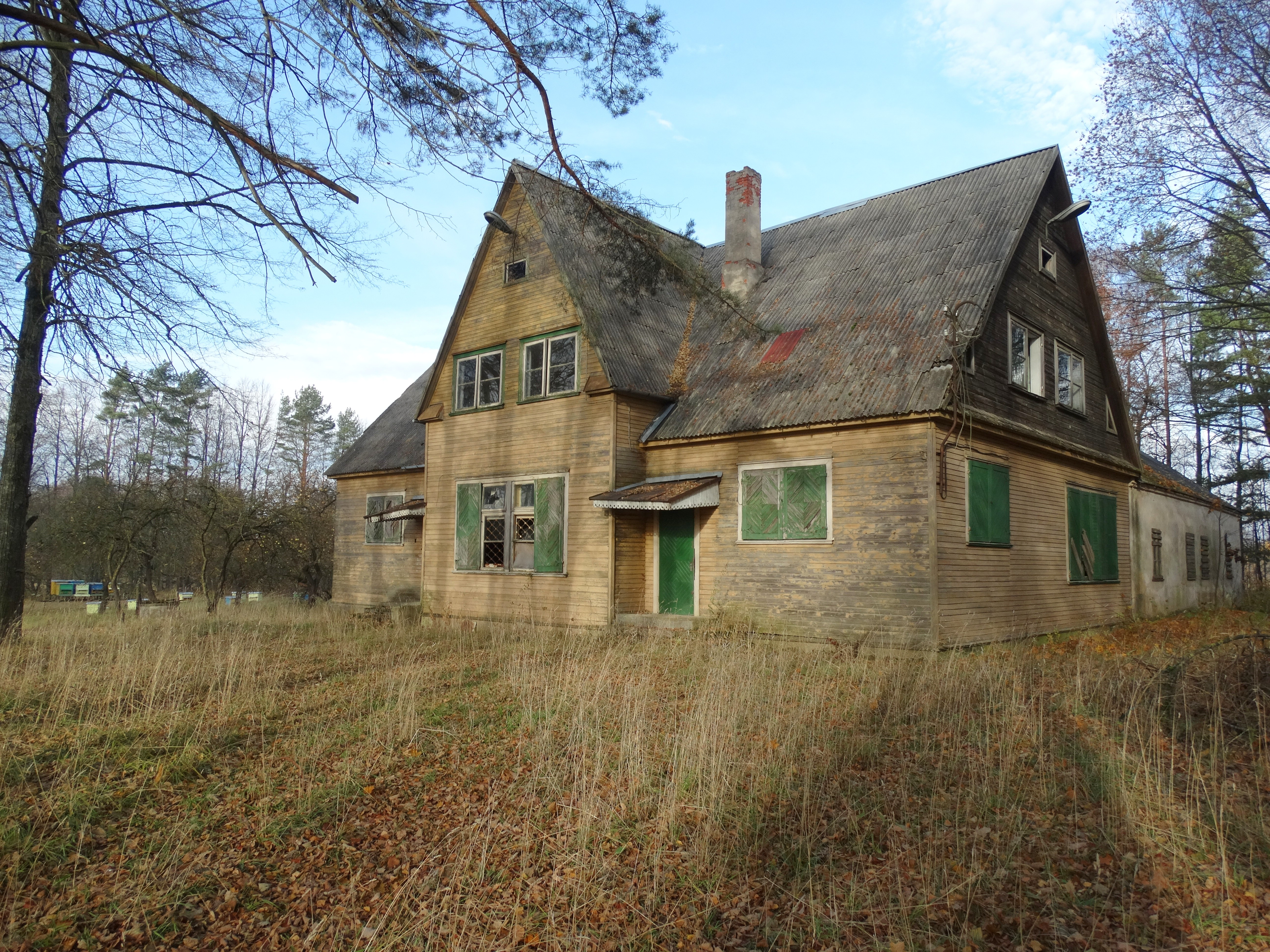 Gegabrasta, Pasvalys district, Lithuania